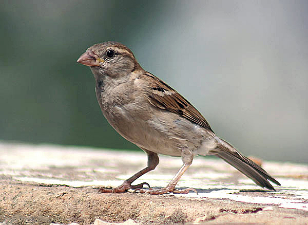 House Sparrow (Passer domesticus) in Kolkata, West Bengal, India